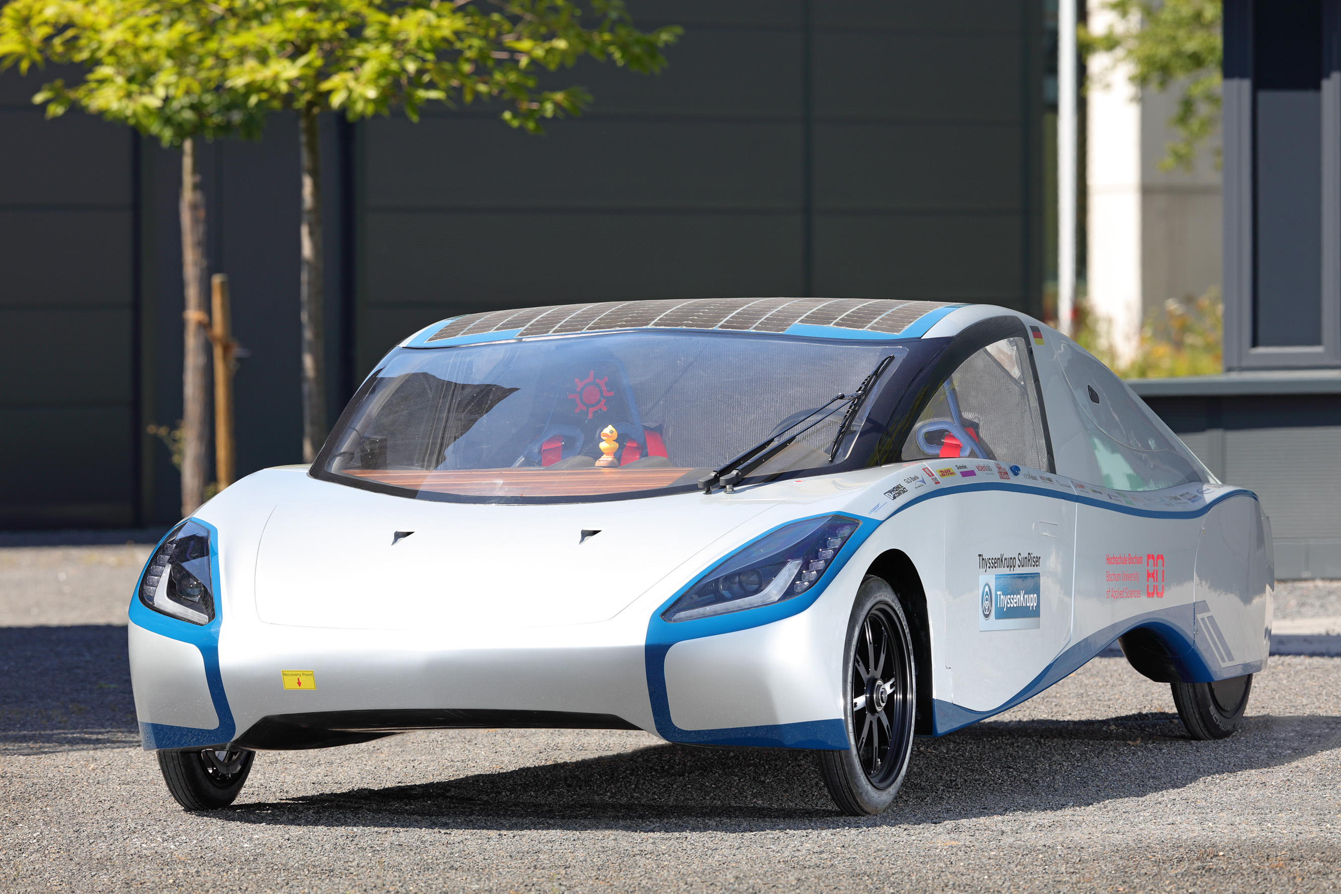 The ThyssenKrupp SunRiser after the roll out.